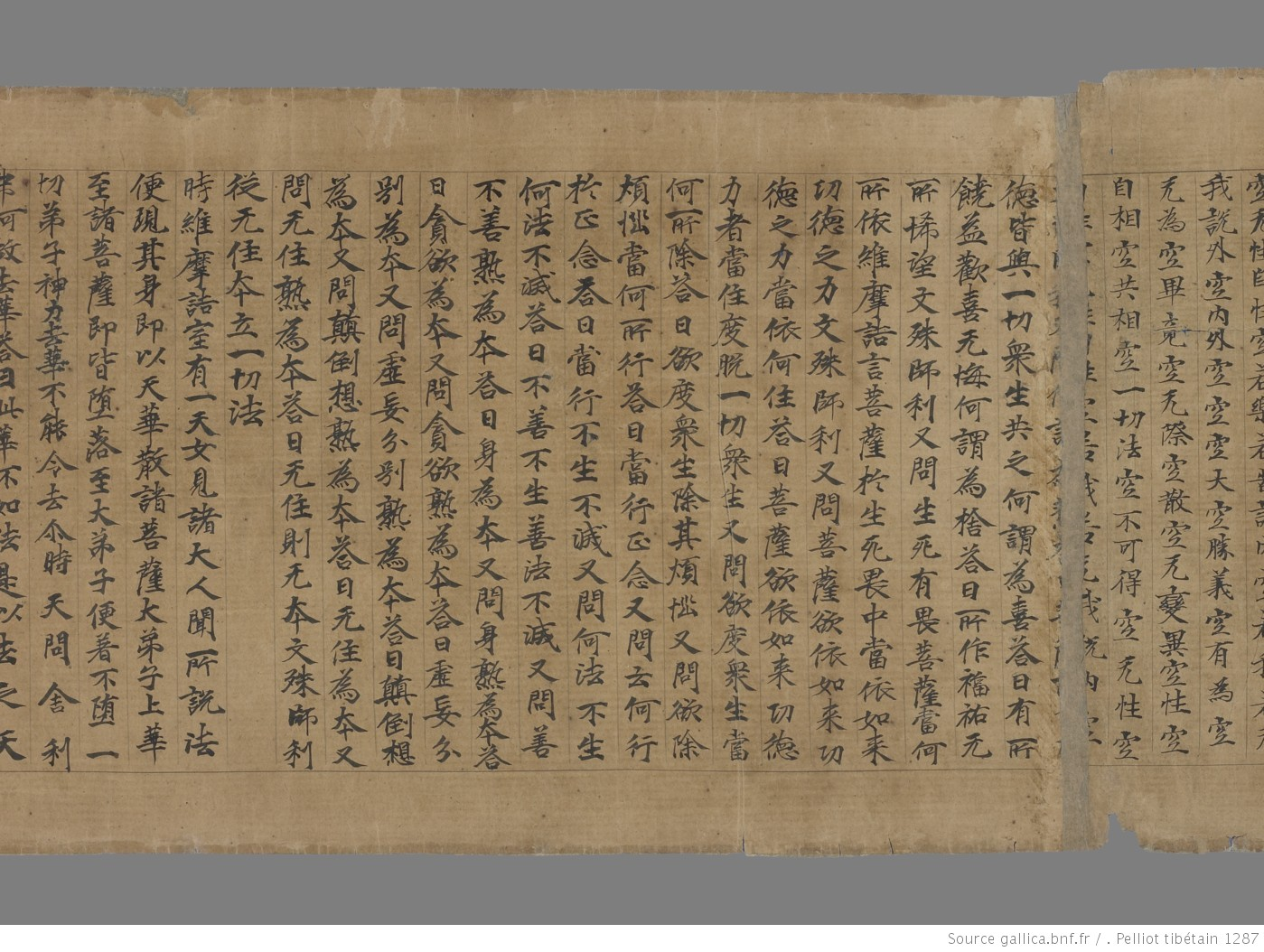 Page 21 of Old Tibetan Chronicle (Pelliot tibétain 1287 at Bibliothèque nationale de France). This is the reverse side, and it's Vimalakīrti Nirdeśa Sūtra in Chinese